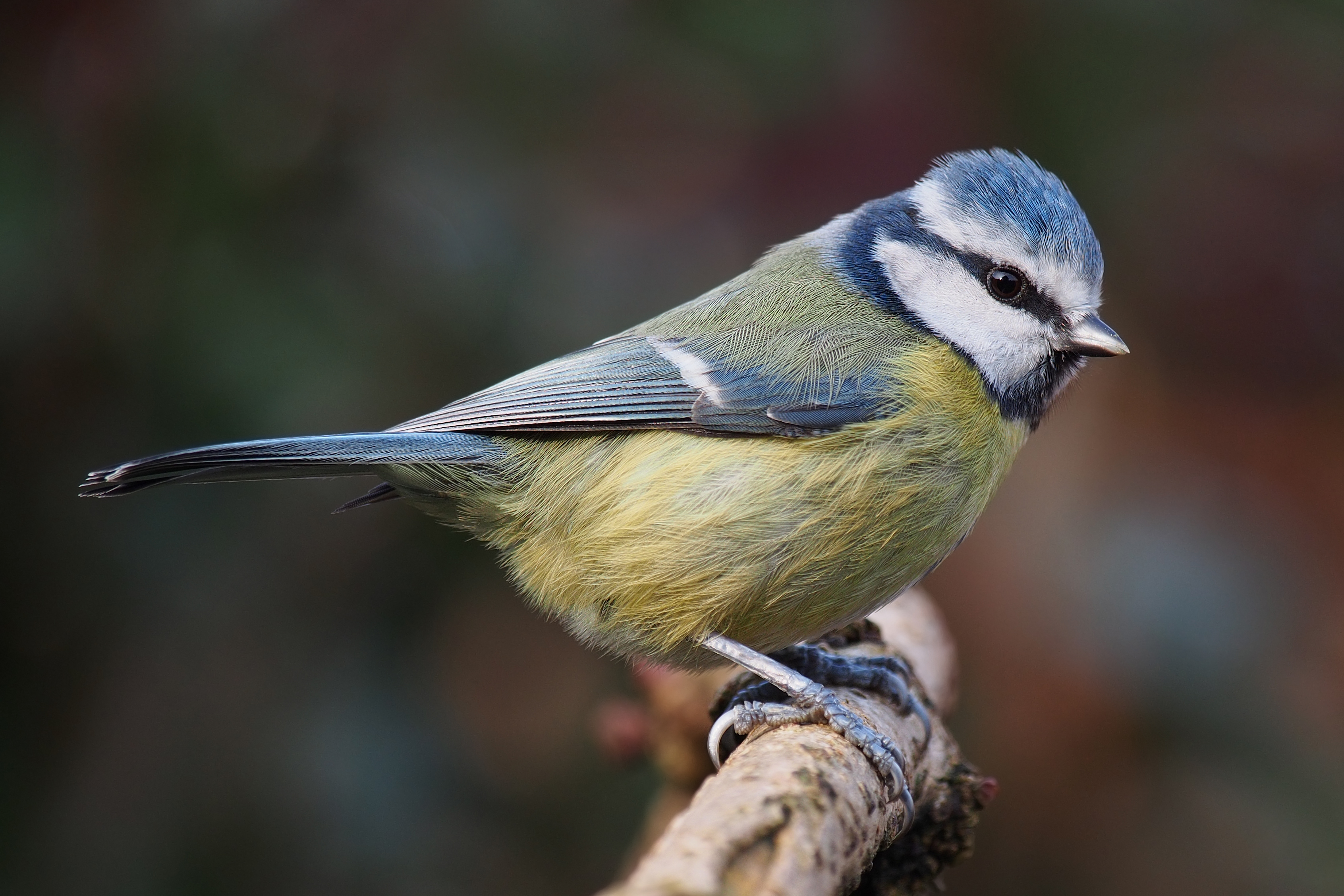 Eurasian blue tit, Cyanistes caeruleus, Lancashire, UK